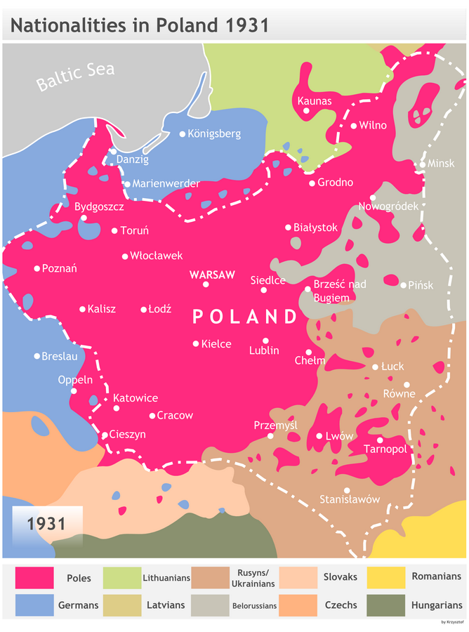 Dominating nationalities in Poland and around, 1931. User-generated POV interpretation of the Census results. For the real Census map see File:GUS languages1931 Poland.jpg